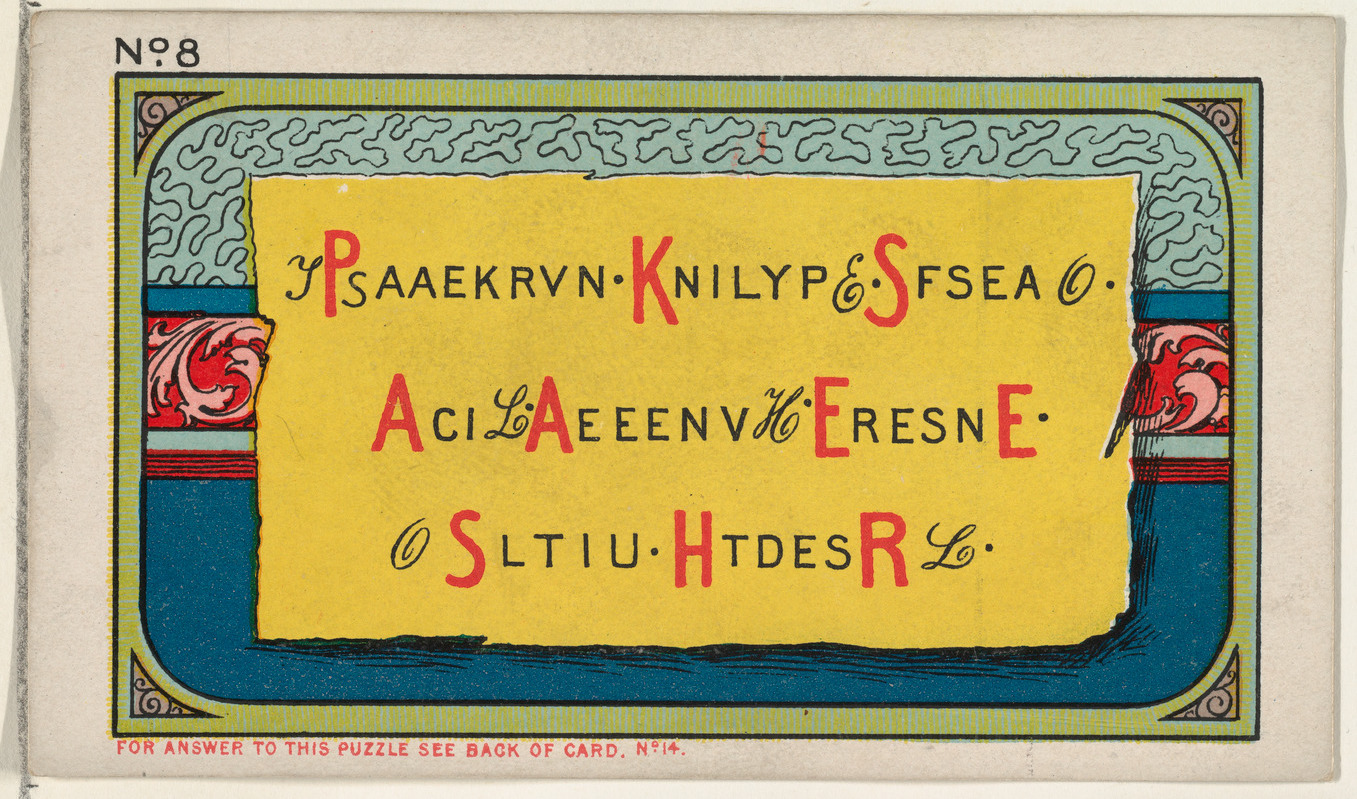 Print; Prints